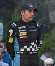 Rally Germany 2012 ADAC Rallye Deutschland,Carlos del Barrio,Ceremonial Start,Dani Sordo,Daniel Sordo,Mini John Cooper Works WRC,Motorsport,Prodrive WRC Team,Rally,Rallye,Rallye Deutschland,WRC